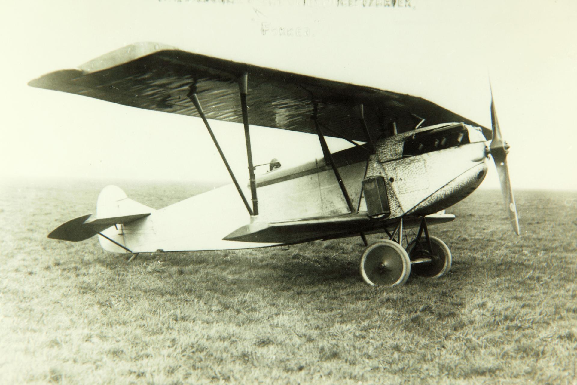 Fokker D.XII